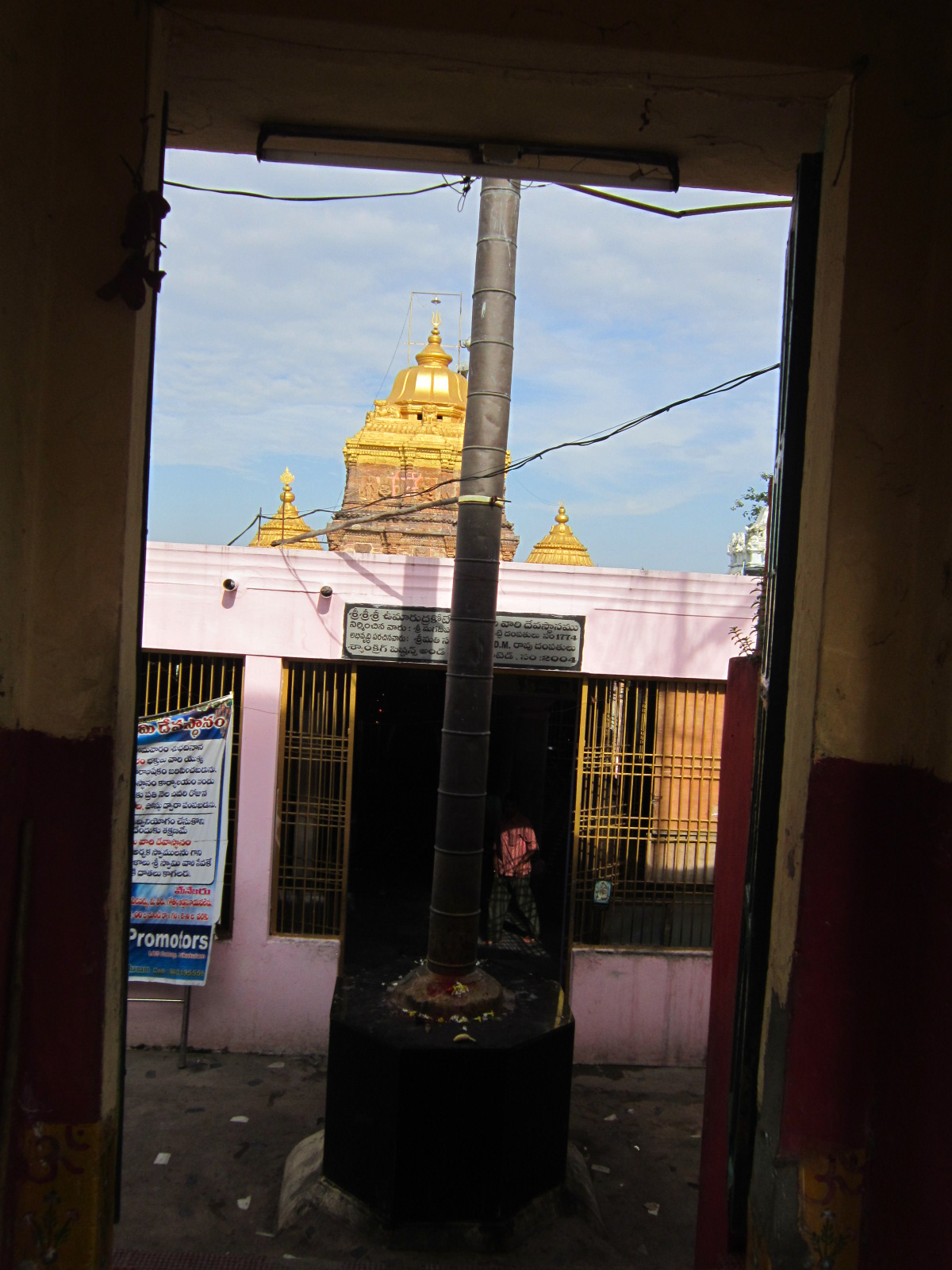 umarudra koterwara temple-ancient temple